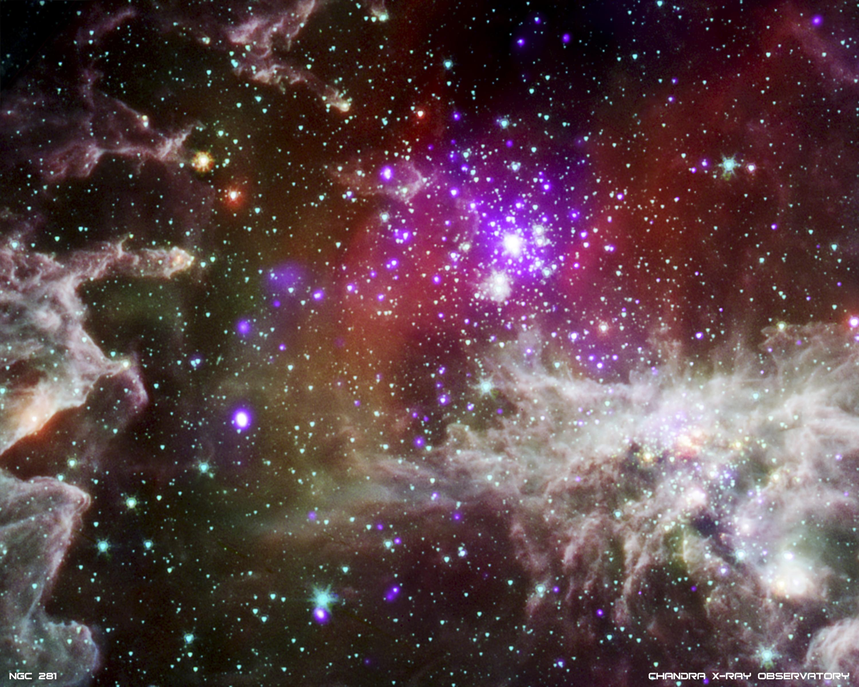 This composite image of NGC 281 contains X-ray data from Chandra, in purple, with infrared observations from Spitzer, in red, green, blue. NGC 281 is typically divided into two subregions: the region in the upper middle of the image, which is surrounded by the purple 10-million-degree gas, and a younger region in the lower part of the image. There is evidence that the formation of a cluster, appearing in a beige cloud to the lower right, was triggered by a previous generation of star formation. Also, astronomers have found some isolated star formation on the left side of the image that appears to have been occurring at the same time as star formation in other regions of the cluster. This supports the idea that something externally triggered the "baby boom" of stars in NGC 281.